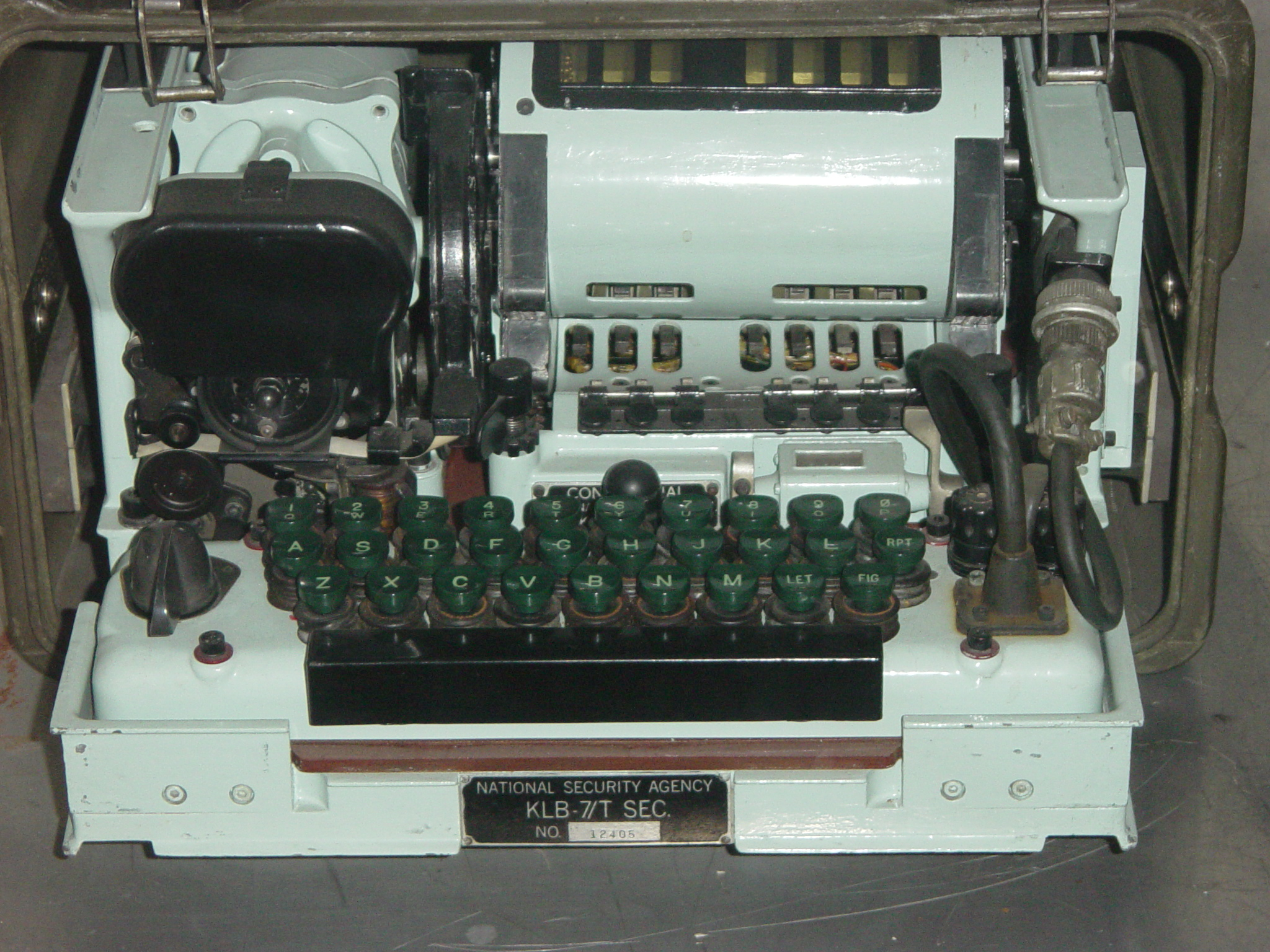 KL-7 cipher machine on display on the HMS Belfast ship museum, London.